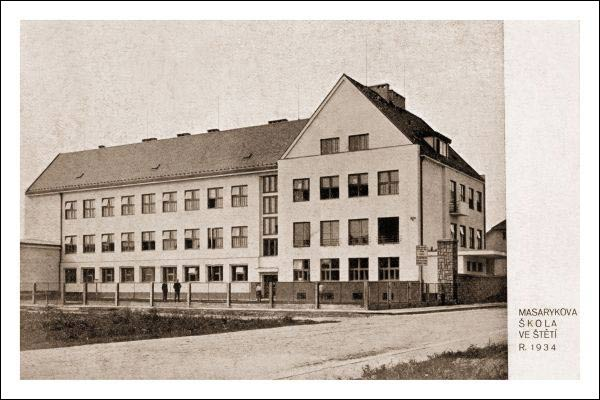 First Czech grammar school in Štětí (Masaryk School).